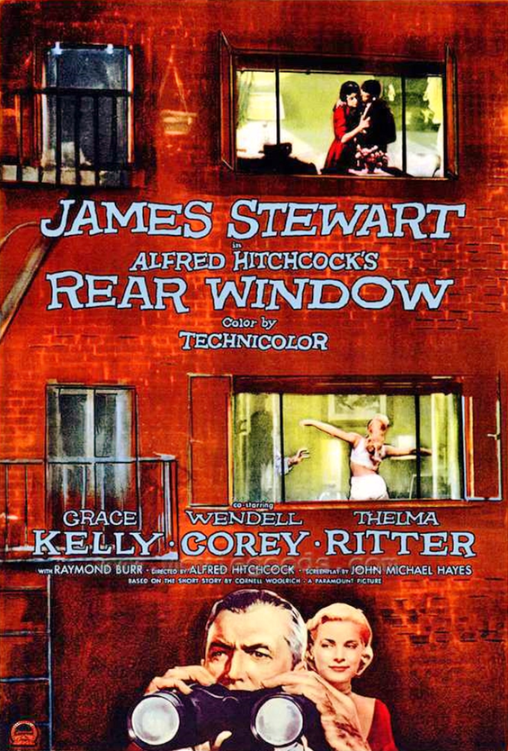 Theatrical poster for the film Rear Window